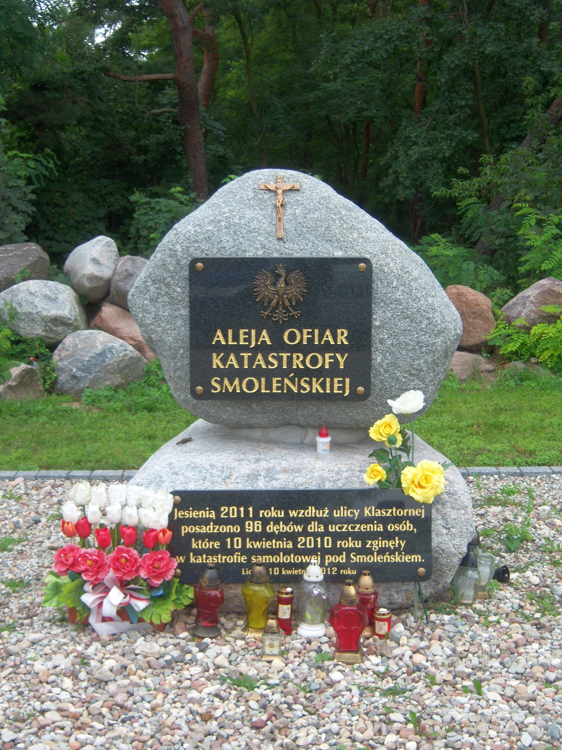 Monument to 2010 Polish Air Force Tu-154 crash in Licheń Stary